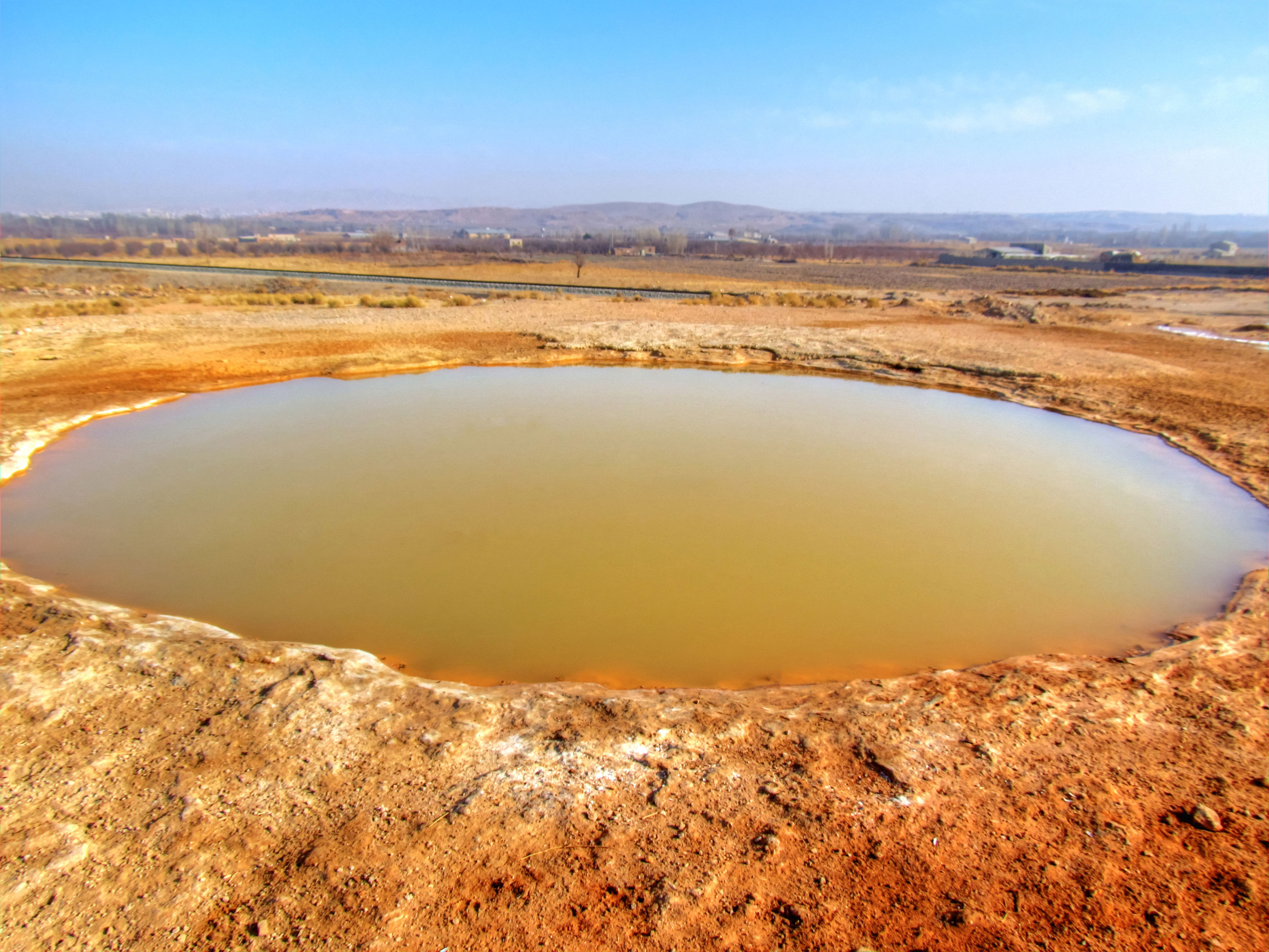 a pristine spa in south MaraghehAzərbaycanca: Sarı Su bulaqı, Marağanın güney zonasında